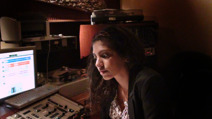 Mastering Alliye